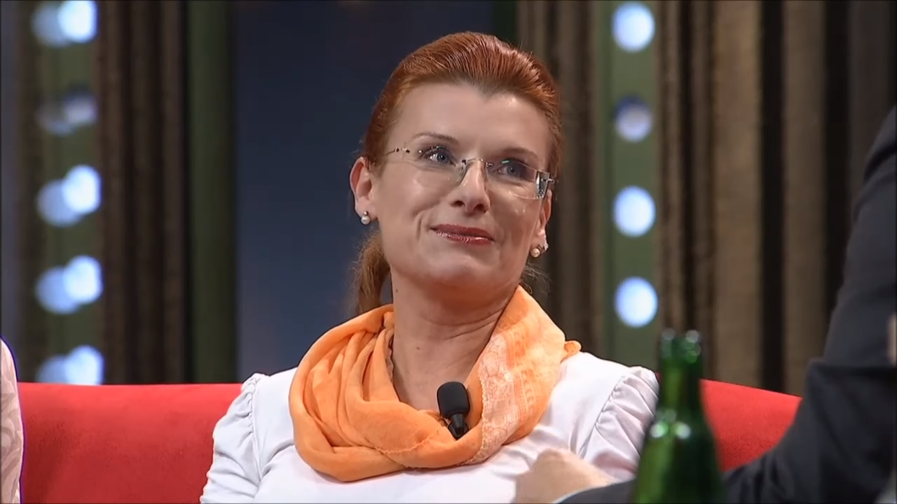 Jarmila Klímová – Czech doctor and psychiatrist